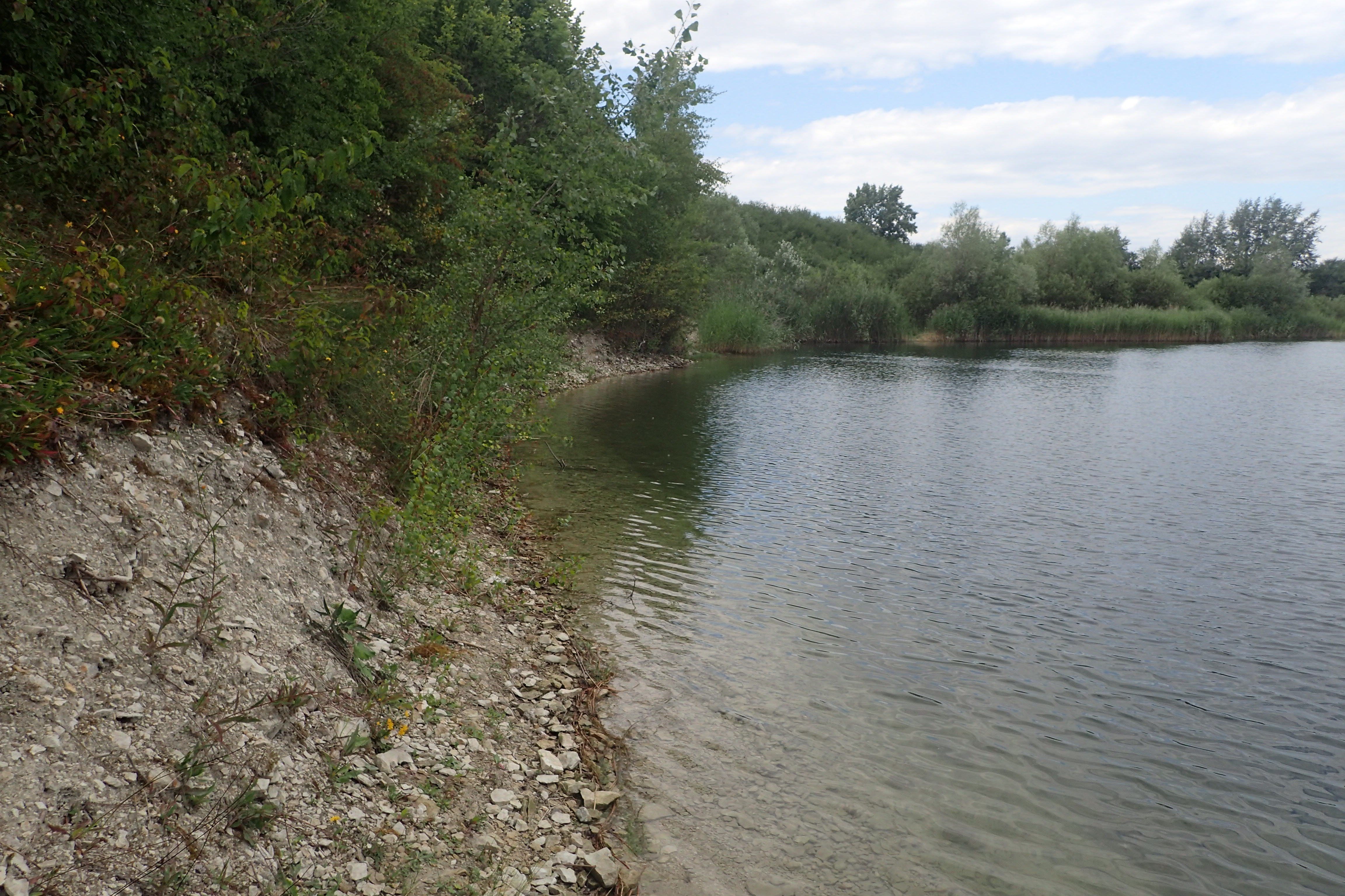 Post-mining tank in souther part of Opole, SW Poland